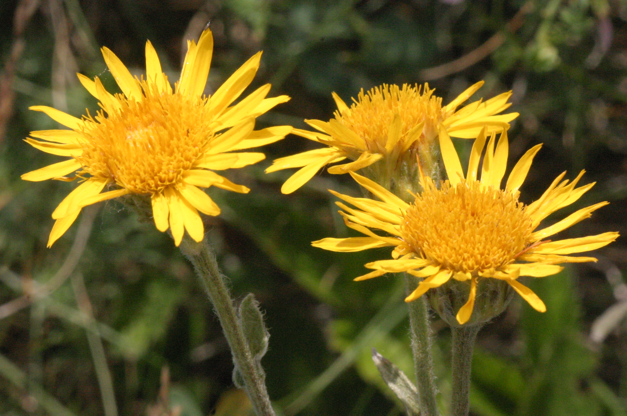 Inula oculus-christi